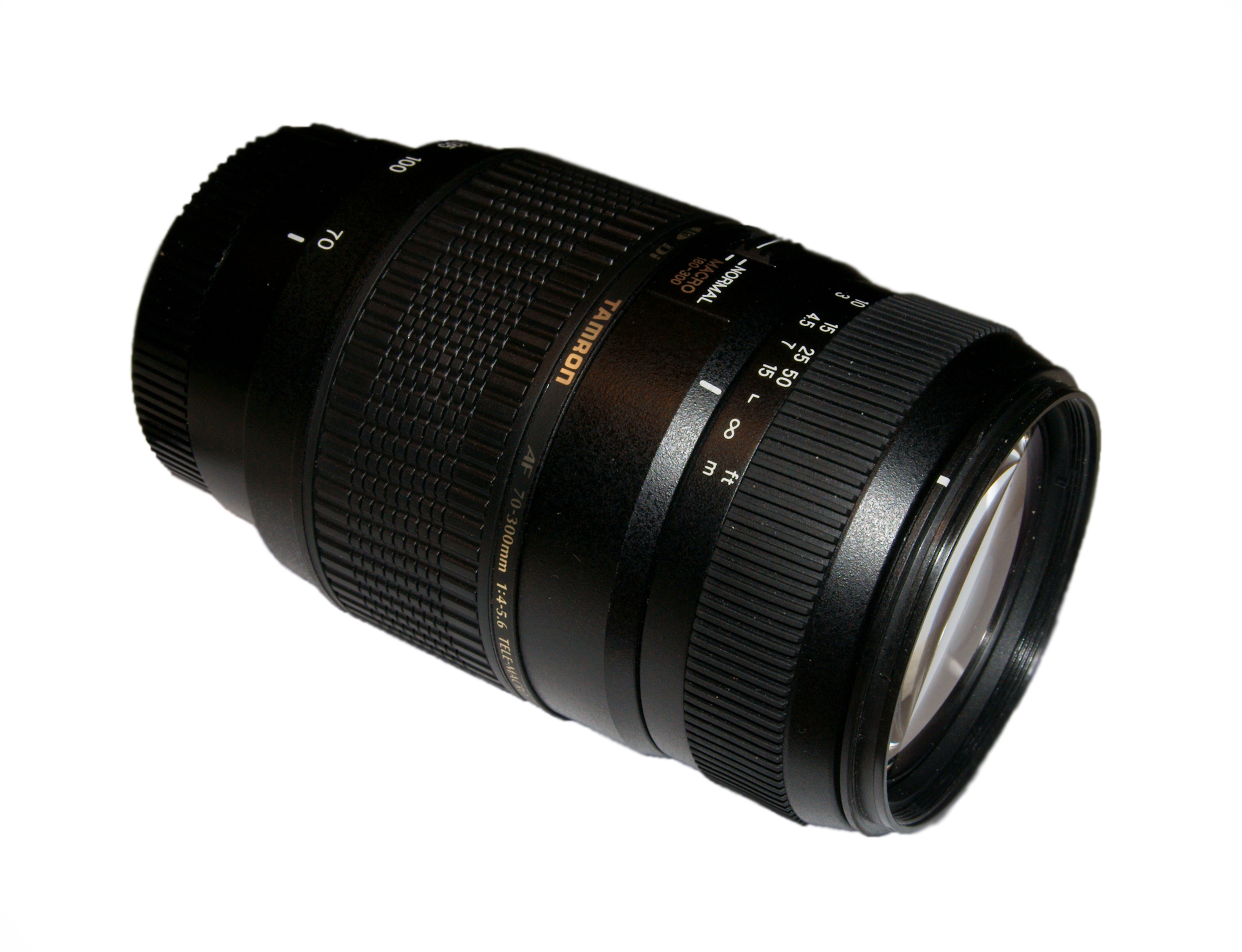 Tamron AF 70-300mm f/4.0-5.6 Di LD Macro lens.